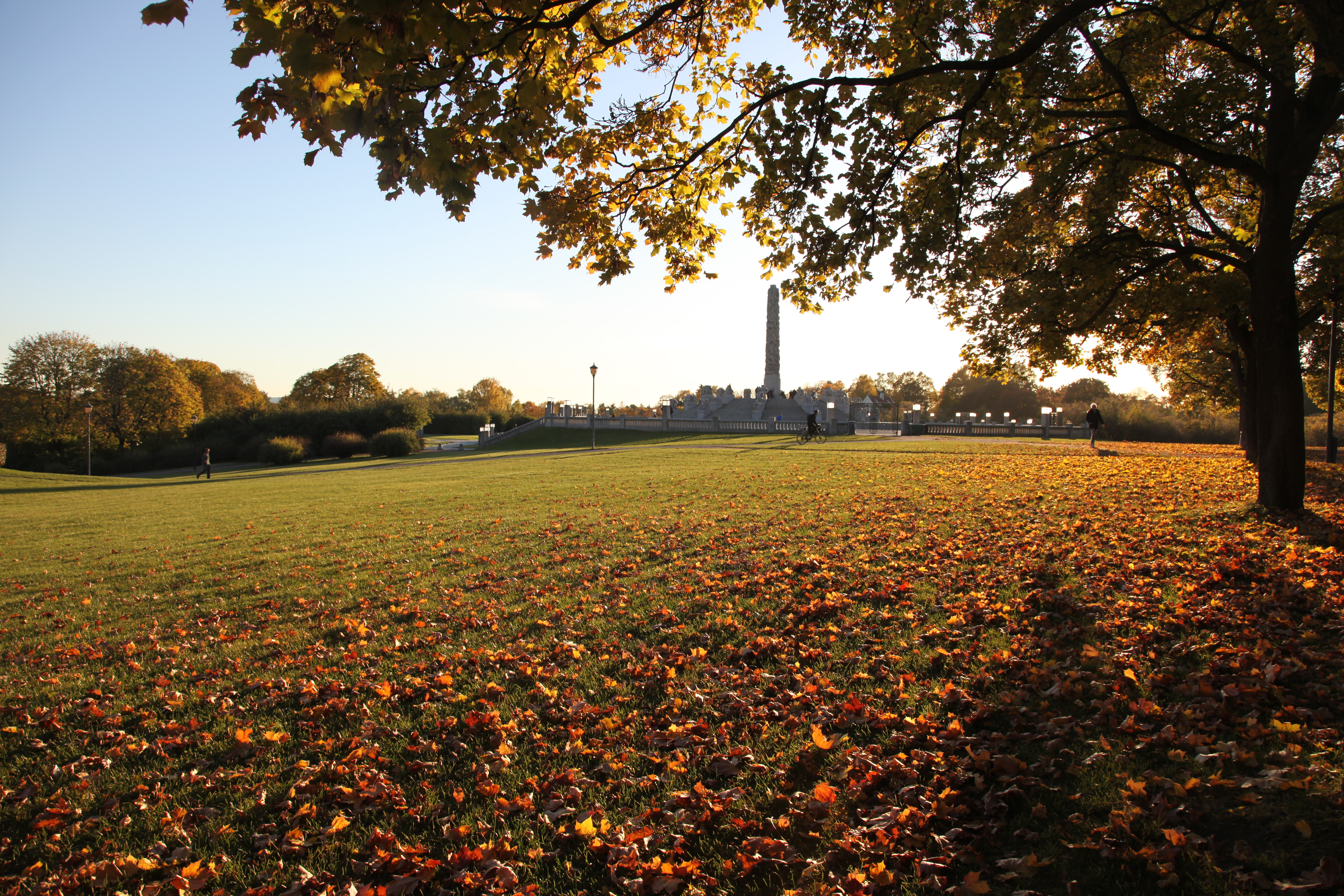 Frogner park in Oslo